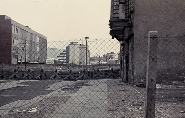 Antitank obstacles and the Berlin Wall, Markgrafenstraße.